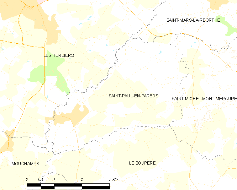 Map of French municipality Saint-Paul-en-Pareds